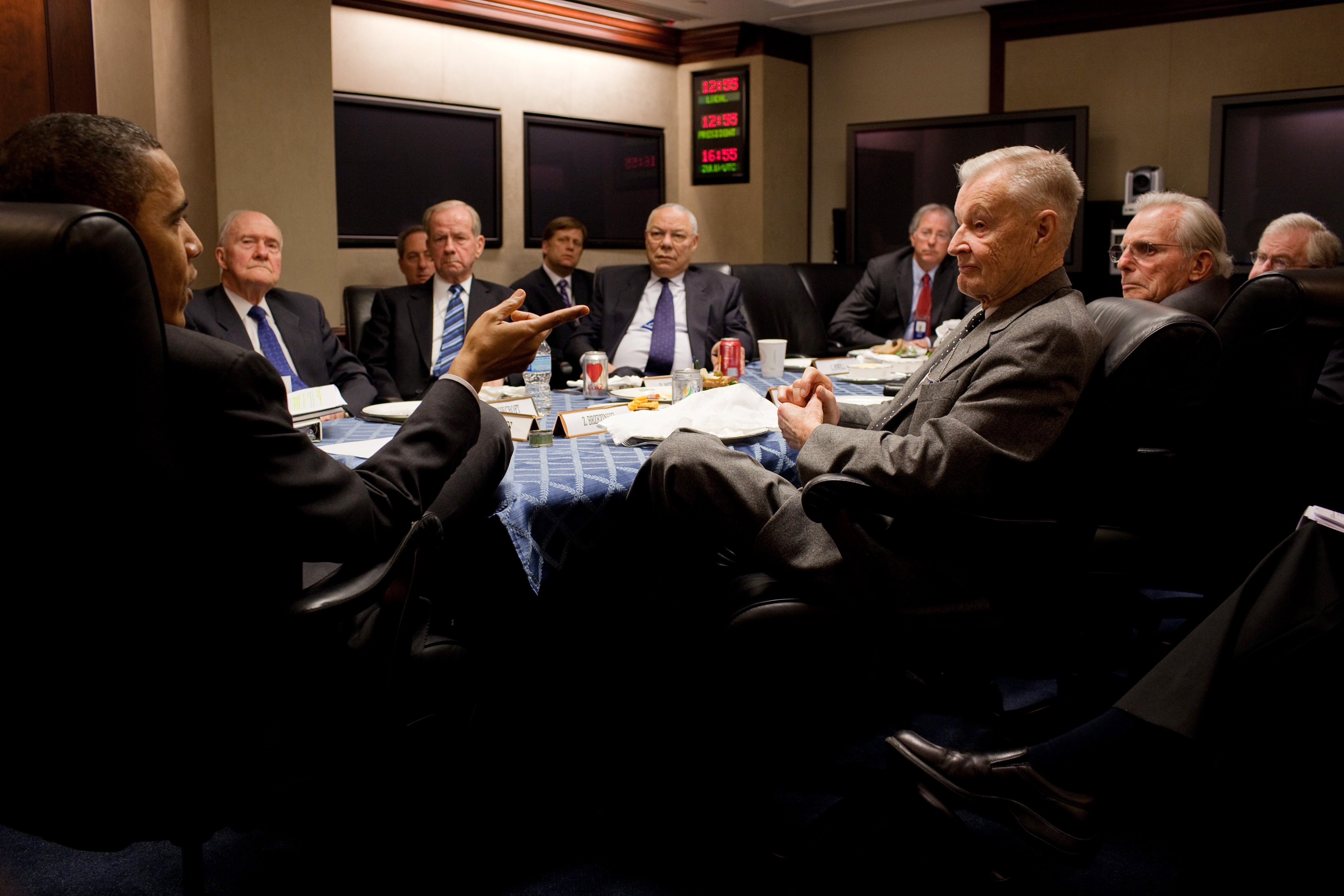 President Barack Obama drops by National Security Advisor Gen. James Jones' meeting with former national security advisors, in the Situation Room of the White House, March 24, 2010. Seated at the table, from left, are Brent Scowcroft, Robert "Bud" McFarlane, Colin Powell, Dennis Ross, senior director for the central region, Sandy Berger, Frank Carlucci, and Zbigniew Brzezinski. Michael McFaul is behind Powell. (Official White House Photo by Pete Souza)